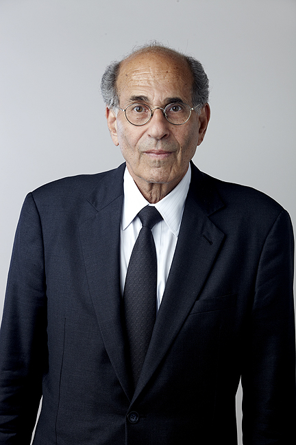 Professor Richard Axel Royal Society Foreign Member elected 2014. Attribution: The Royal Society